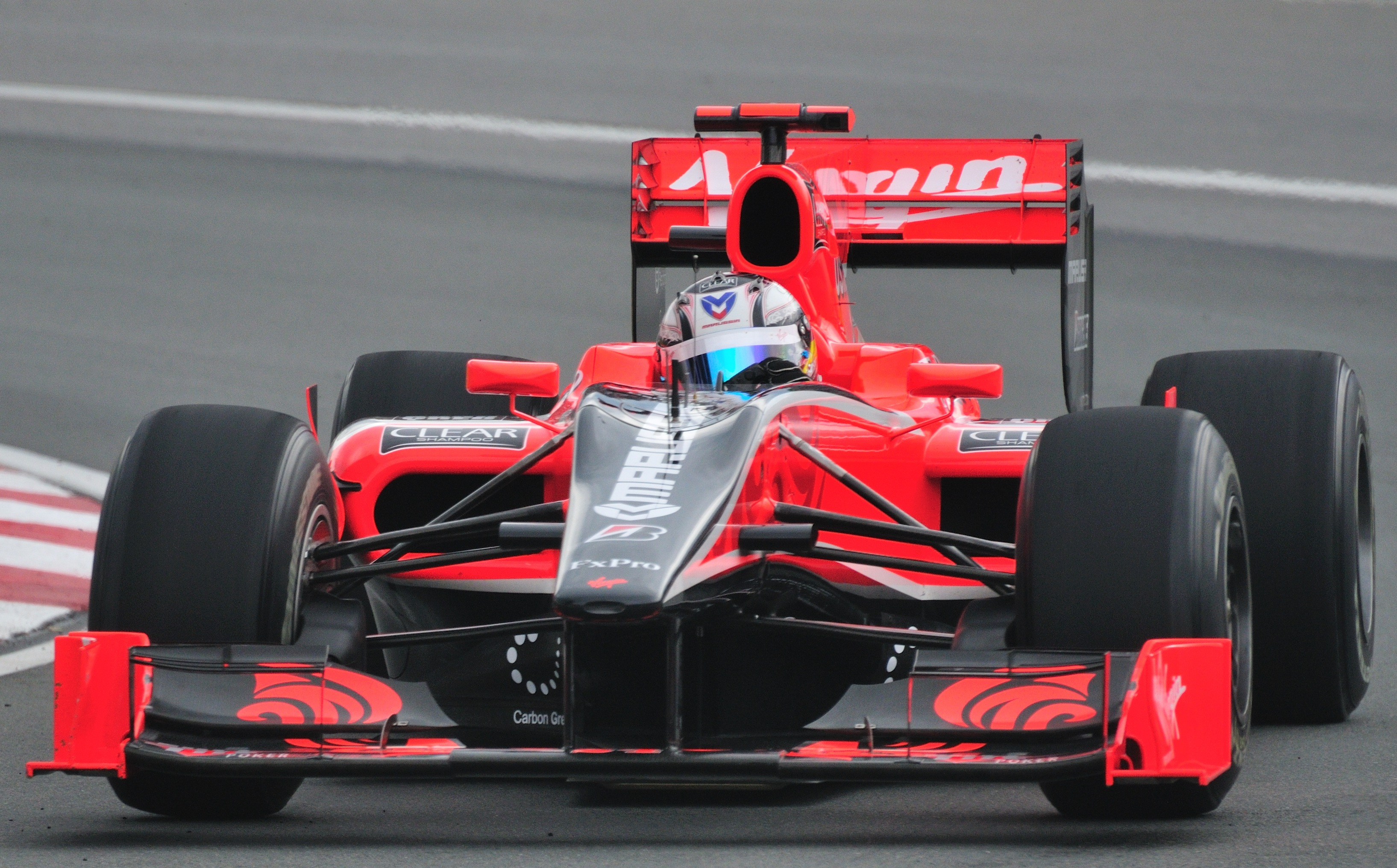 Virgin Racing driver Timo Glock of Germany (2010 Canadian GP)